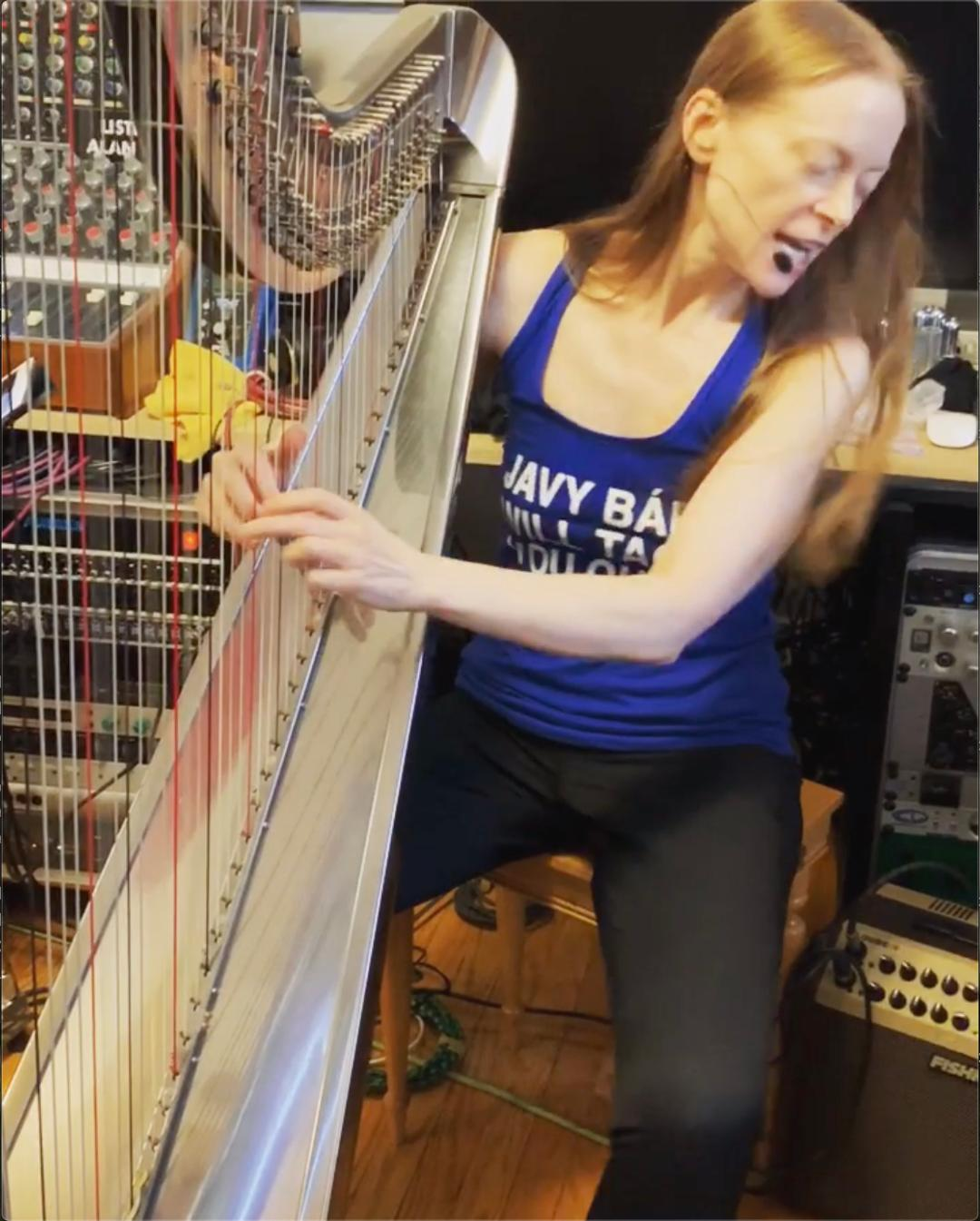 Erin Hill